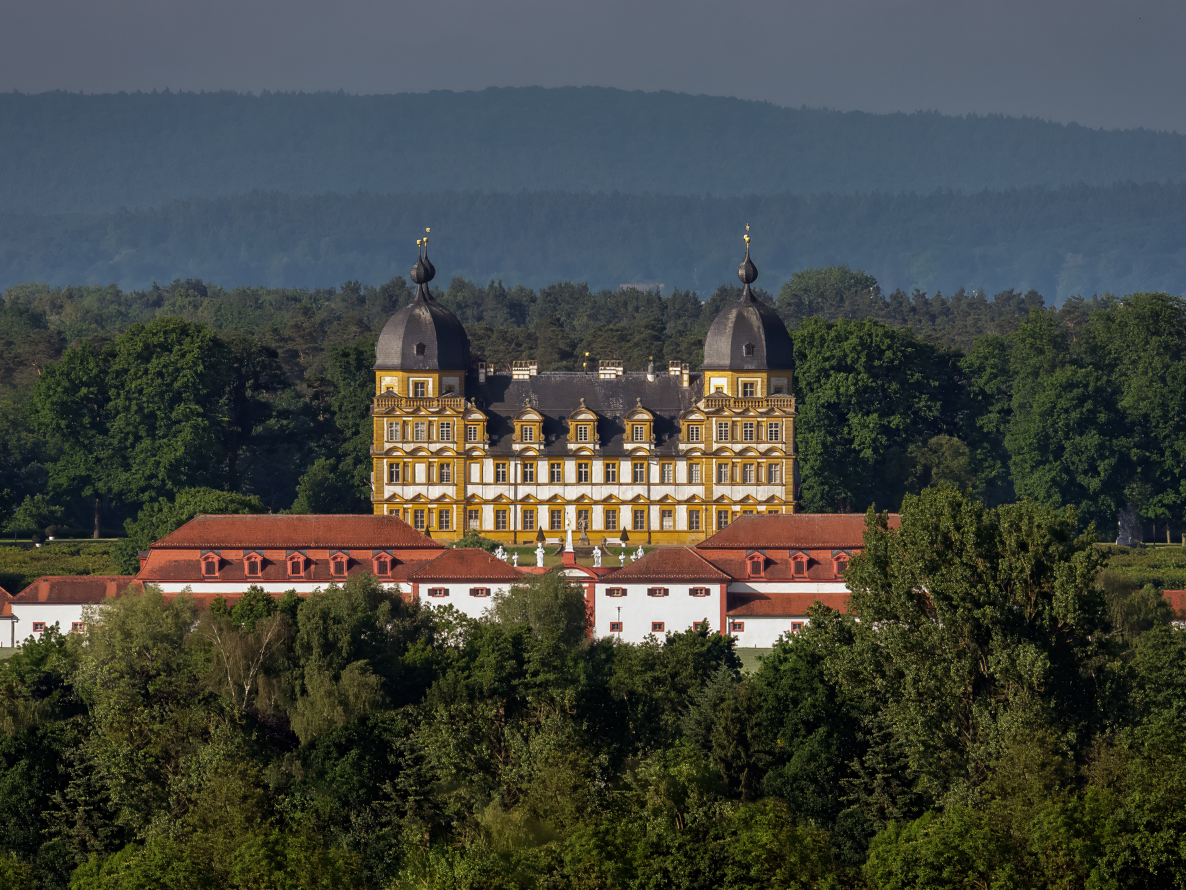 View at Schloss Seehof